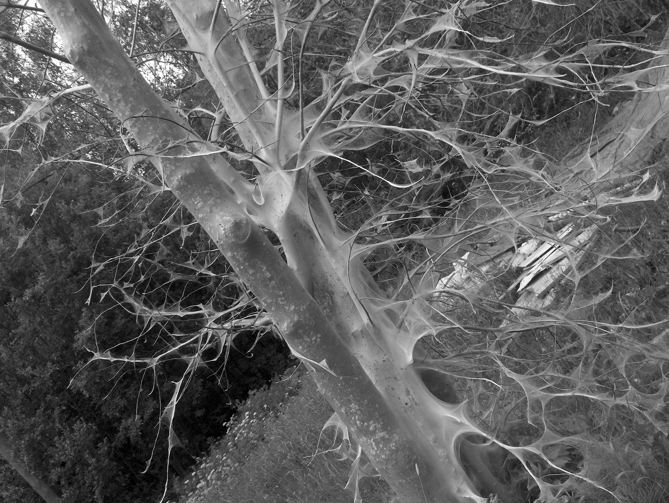 Pictures of an Ermine moth infected Bird Cherry. Uploaded and licensed with permission. B&W image of a Bird Cherry Prunus padus with Ermine infection.